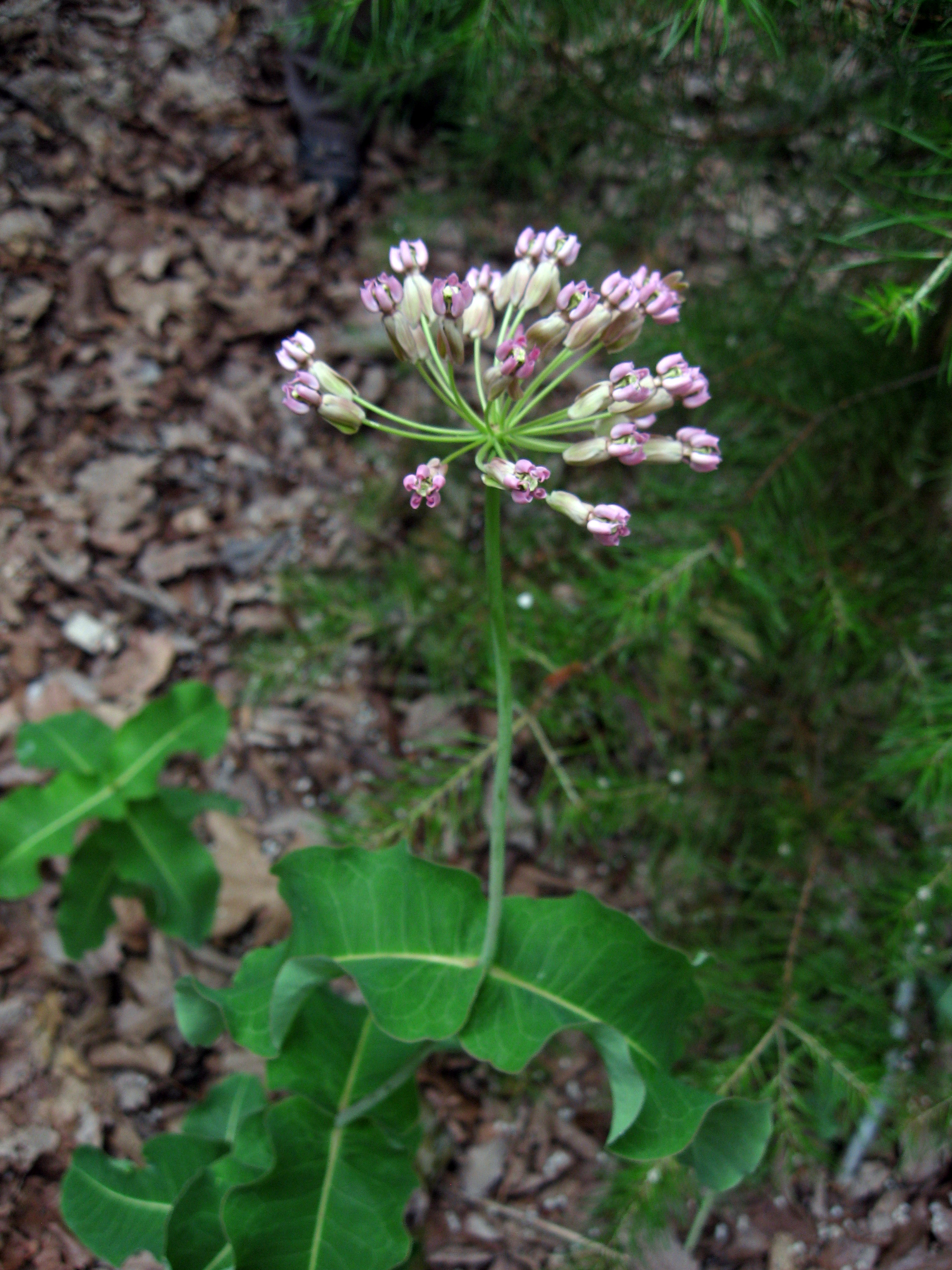 Asclepias amplexicaulis, on Prince Knob near the Ocoee River, Polk County, Tennessee.